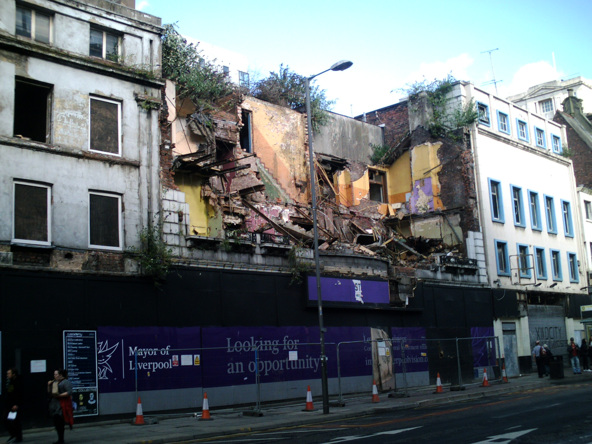 Tuesday after the weekend demolition- Lime Street has reopened to traffic and the facade is almost completely removed.